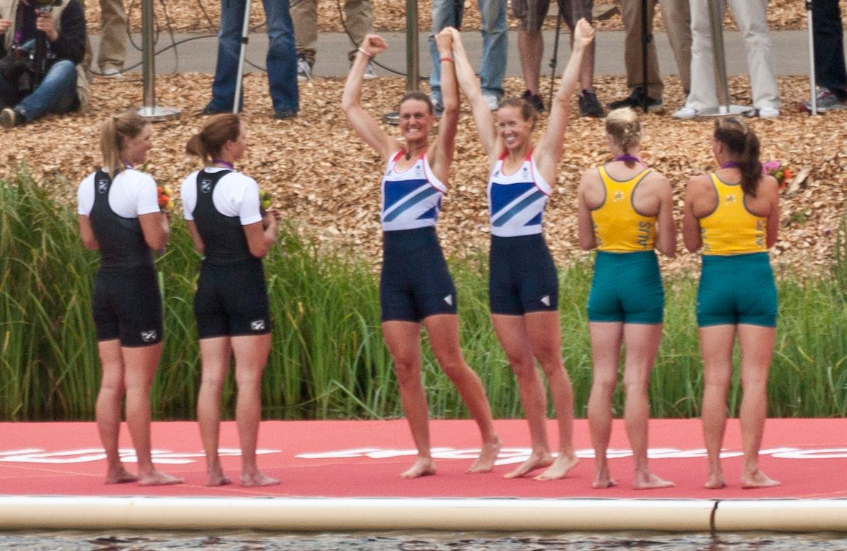 Rowing at the 2012 Summer Olympics – Women's coxless pair medallists Details: EF70-300mm f/4-5.6 IS USM at 300 mm with 1/400 sec at f/5.6.